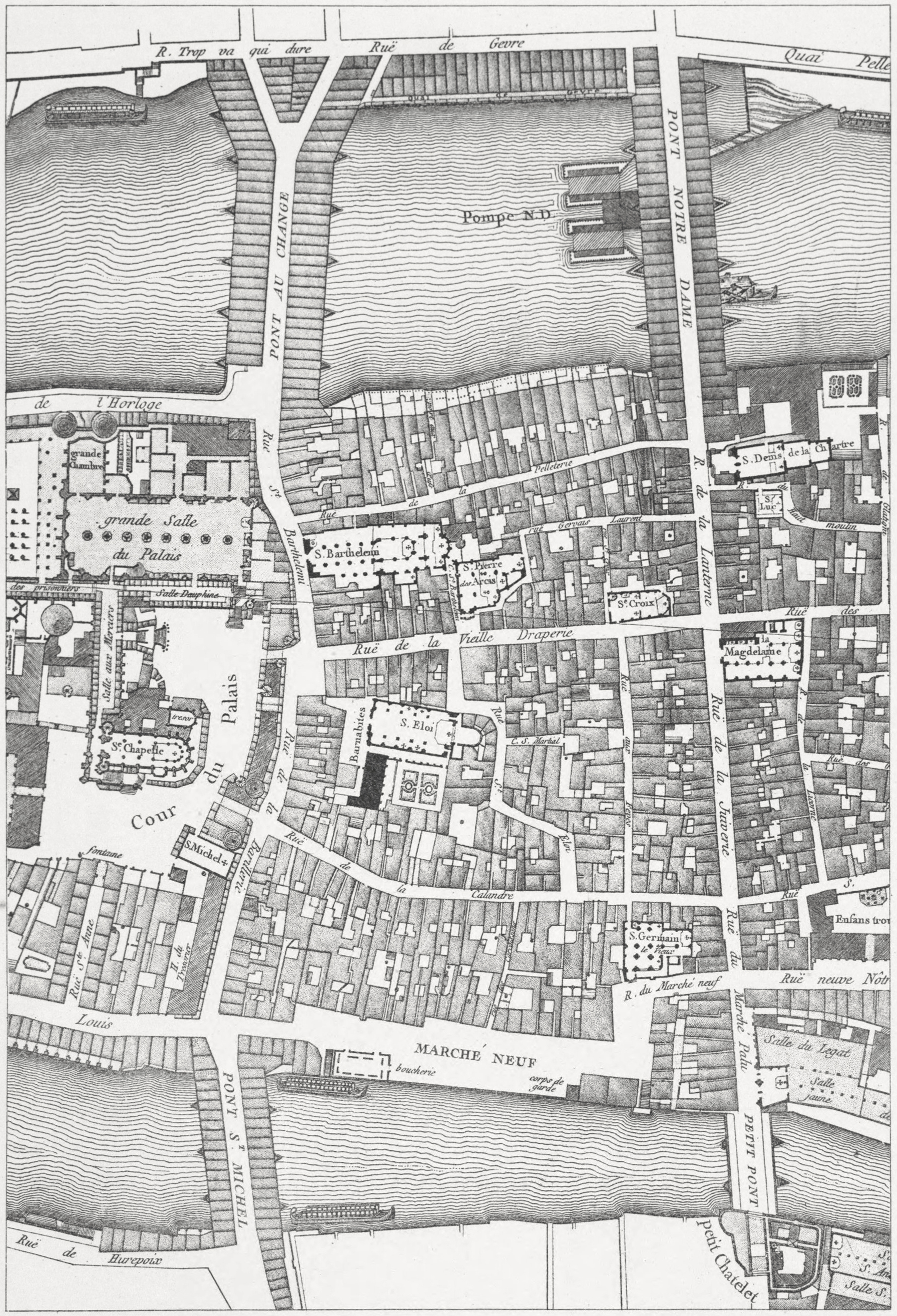 Plans of the area between the Pont Notre-Dame and the Pont au Change on the Ile de la Cité. On the left, a plan from 1754. On the right, a plan from 1838. A plan dated 1875 is overlaid on both sides.